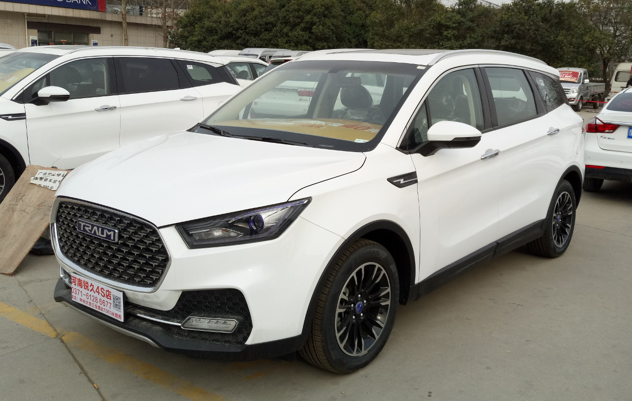 Traum S70 photographed in Zhengzhou, Henan province, China.